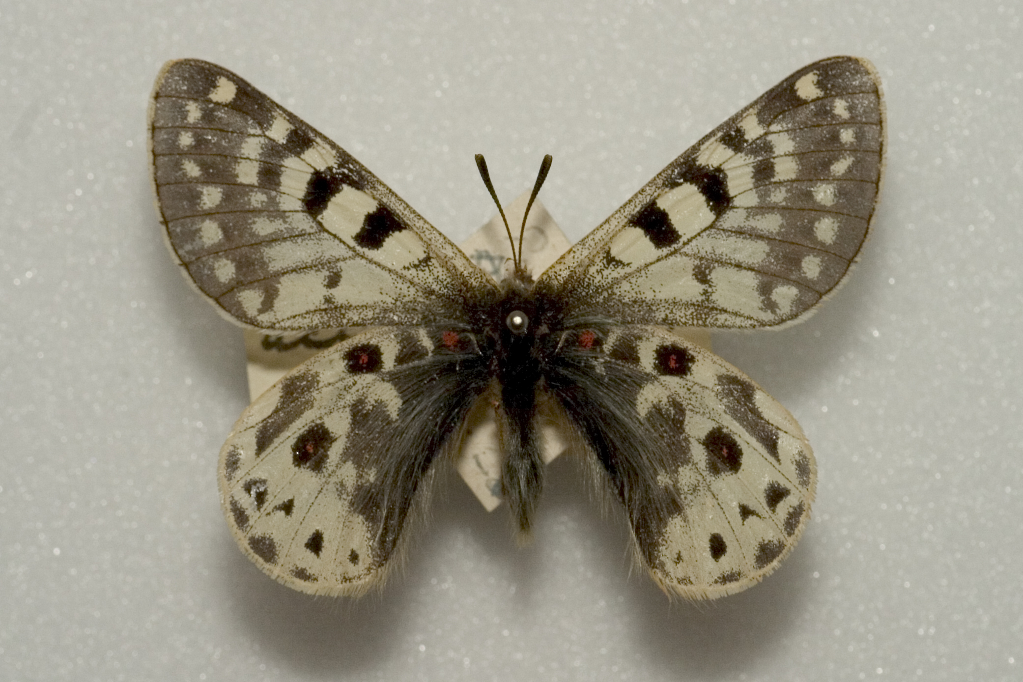 Parnassius acco gemmifer Fruhstorfer Male Dochen Tibet 15,000 ft. 24.7.1928 acco gemmifer Fruhstorfer Tytler collection Own photo. Photography by Brian McKenna